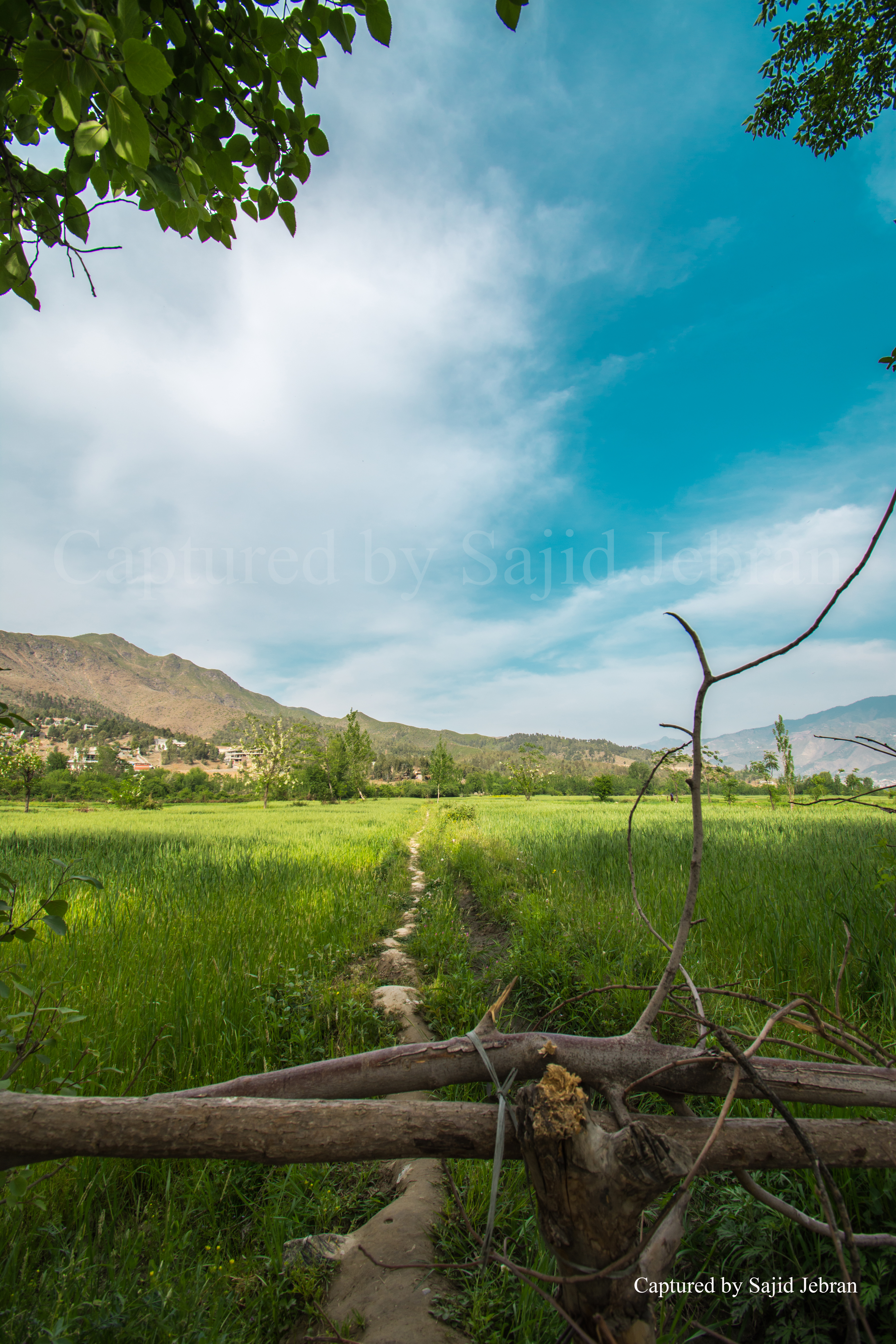 Munjai Crops Captured by Sajid jebran